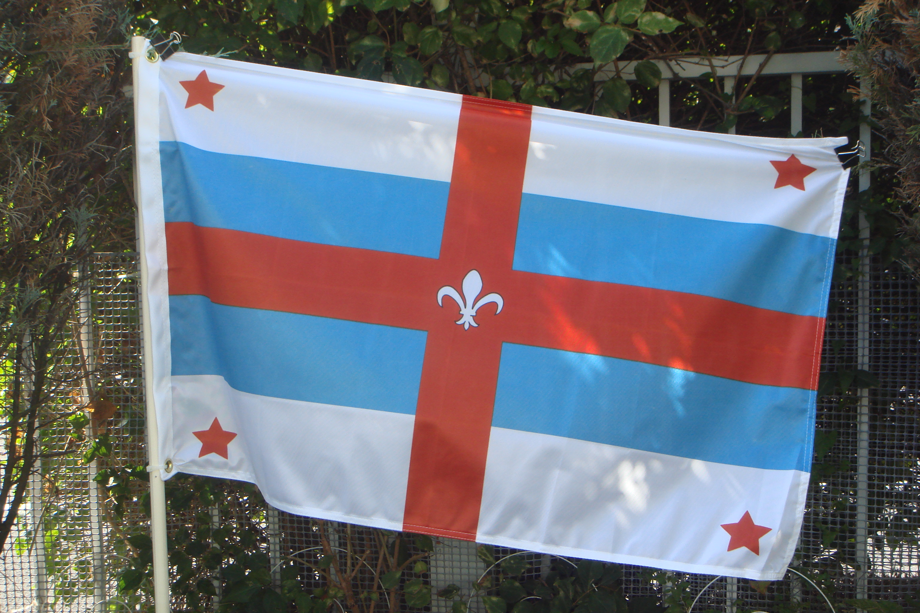 On August 21st 2011, the Facebook group Anglo-Quebec Identity Flag promoted the development of a community flag for the whole of the Anglo-Quebec population. This is the flag they adopted.